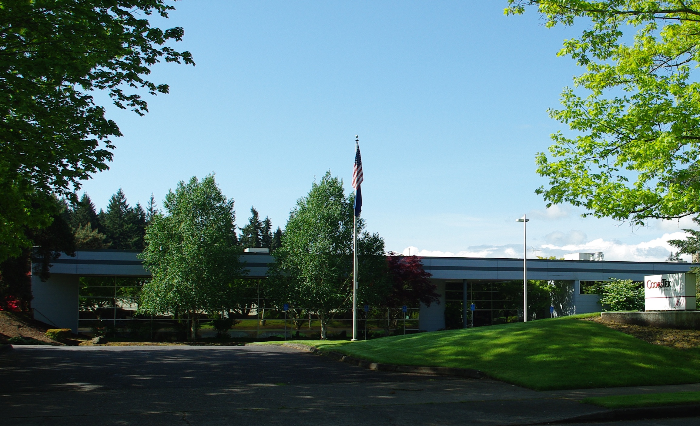 CoorsTek in the Hawthorn Farm area of Hillsboro, Oregon.